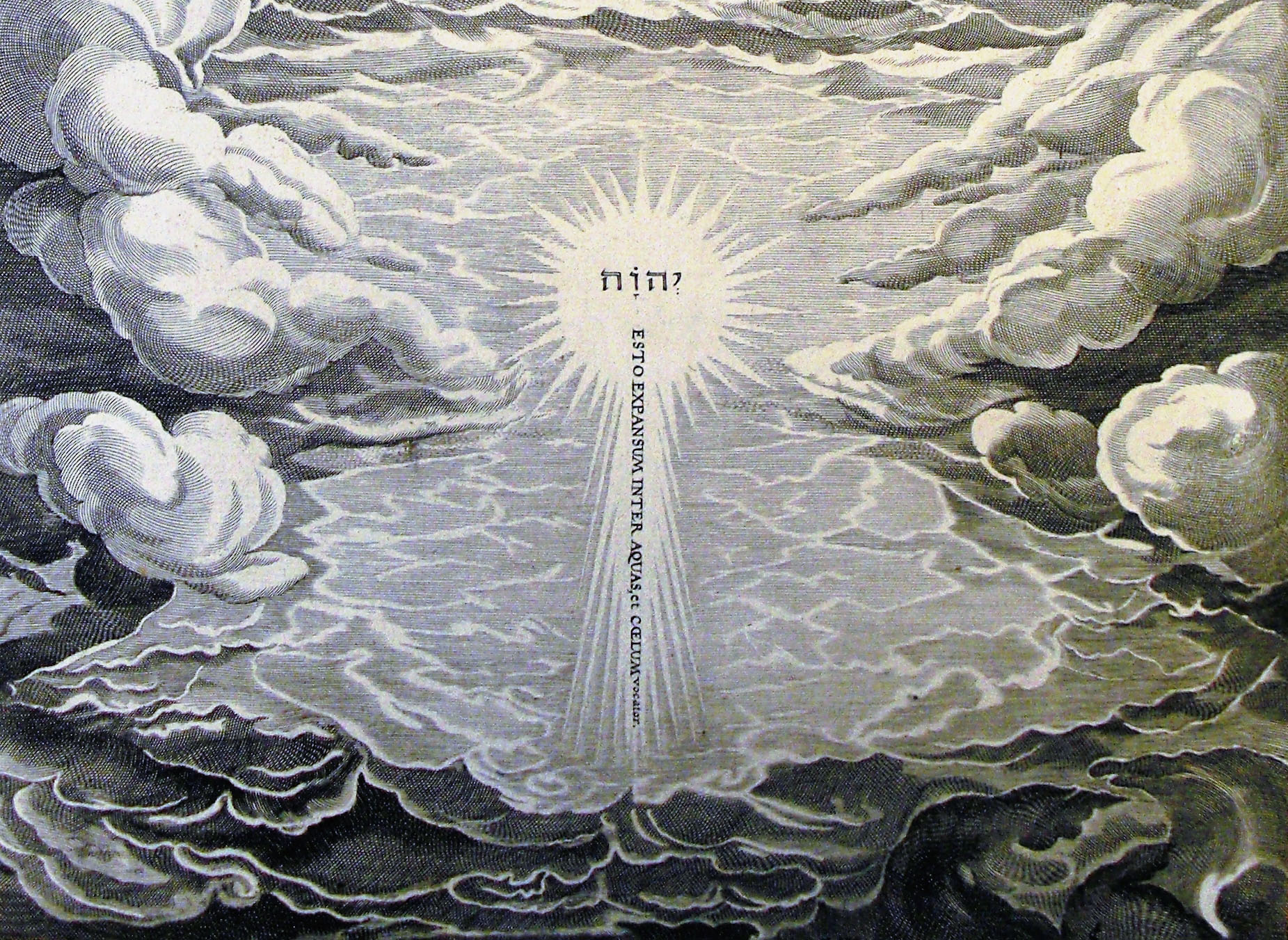 Creation. Genesis cap 1 v 10. De Vos